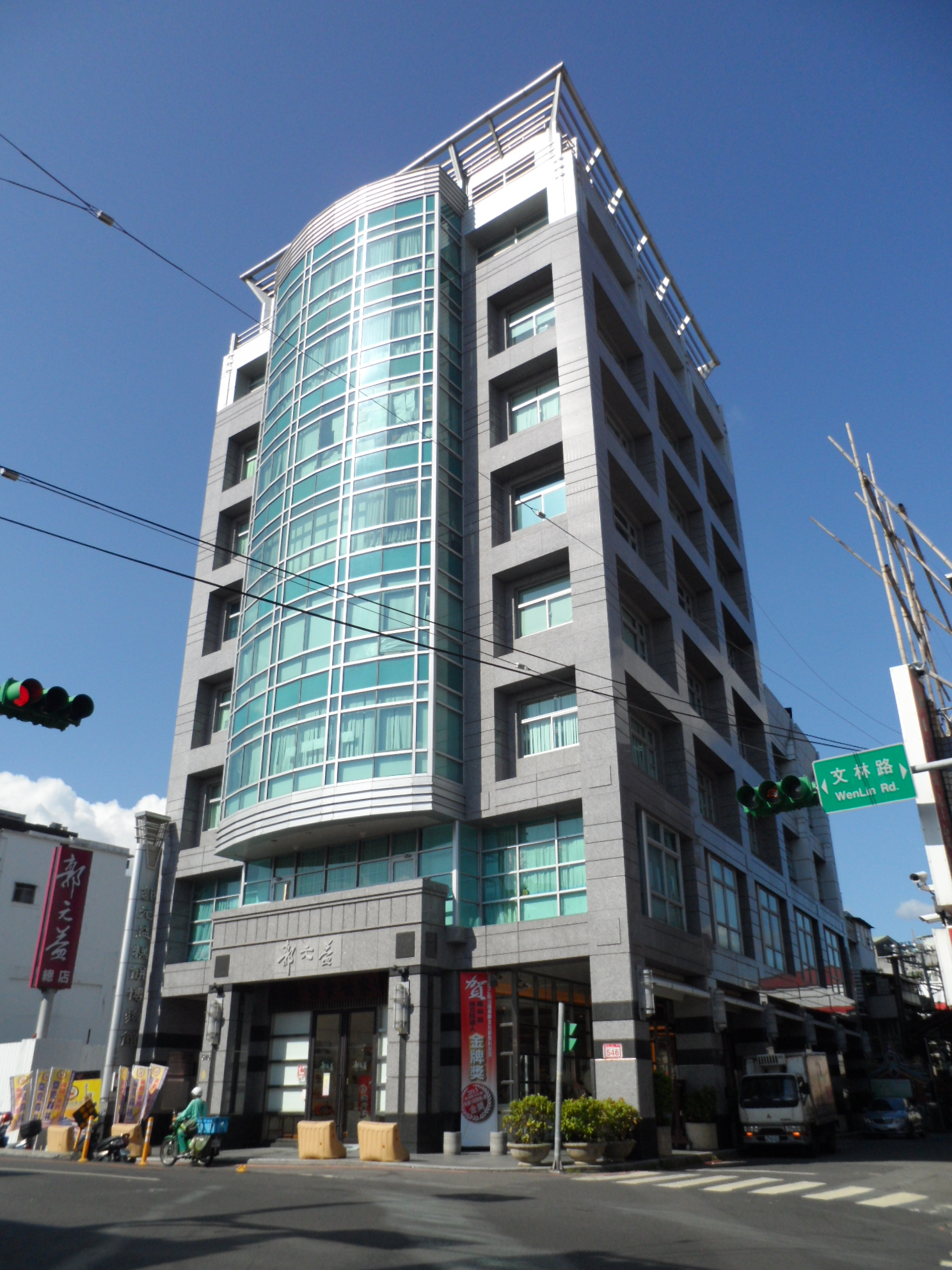 Kuo Yuan Ye Foods headquarters in Shilin District, Taipei City.